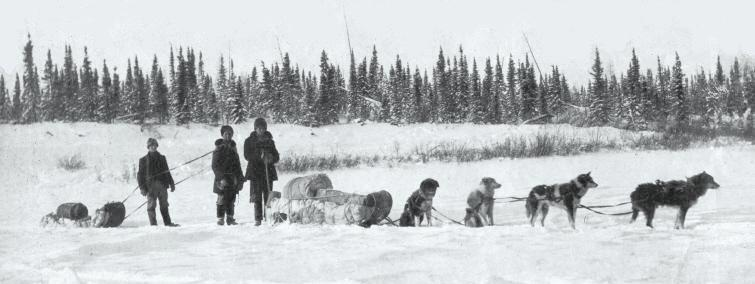 Photograph, Dog team pulling loaded sled of the Hudson Bay Railway Survey Party, Little Churchill River, MB, 1908, Hugh A. Peck, December 1908, Silver salts - Gelatin silver process - 7.6 x 13.2 cm